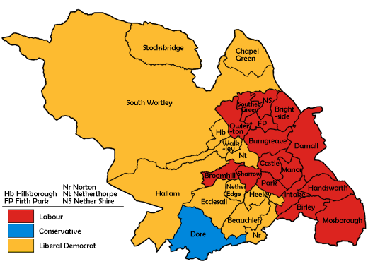 Ward map of Sheffield Council with political colouring for the 1996 election.